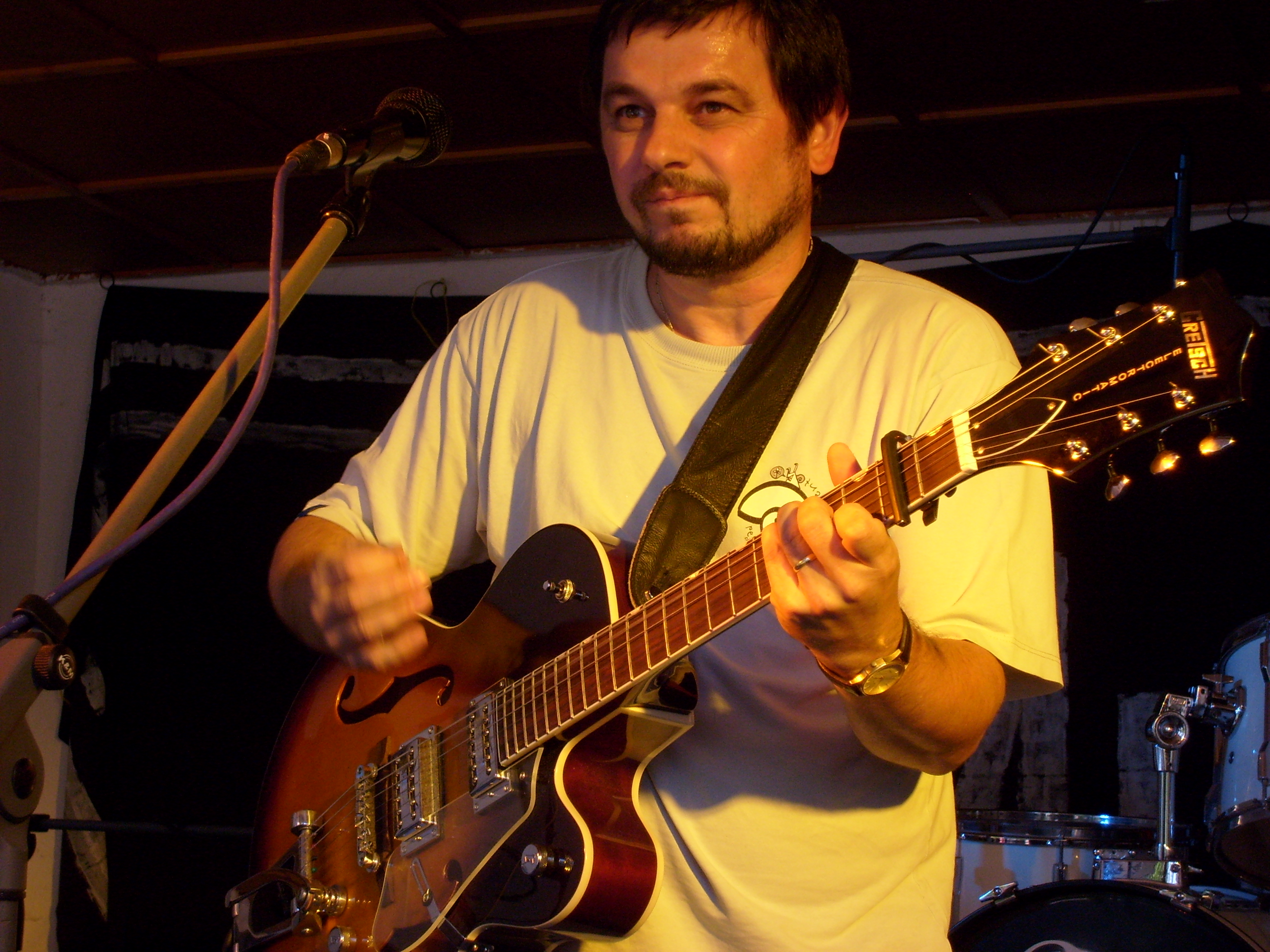 Přemysl Haas, Otevřeno Jimramov, koncert Caine tria, 25th August 2007, Czech Republic